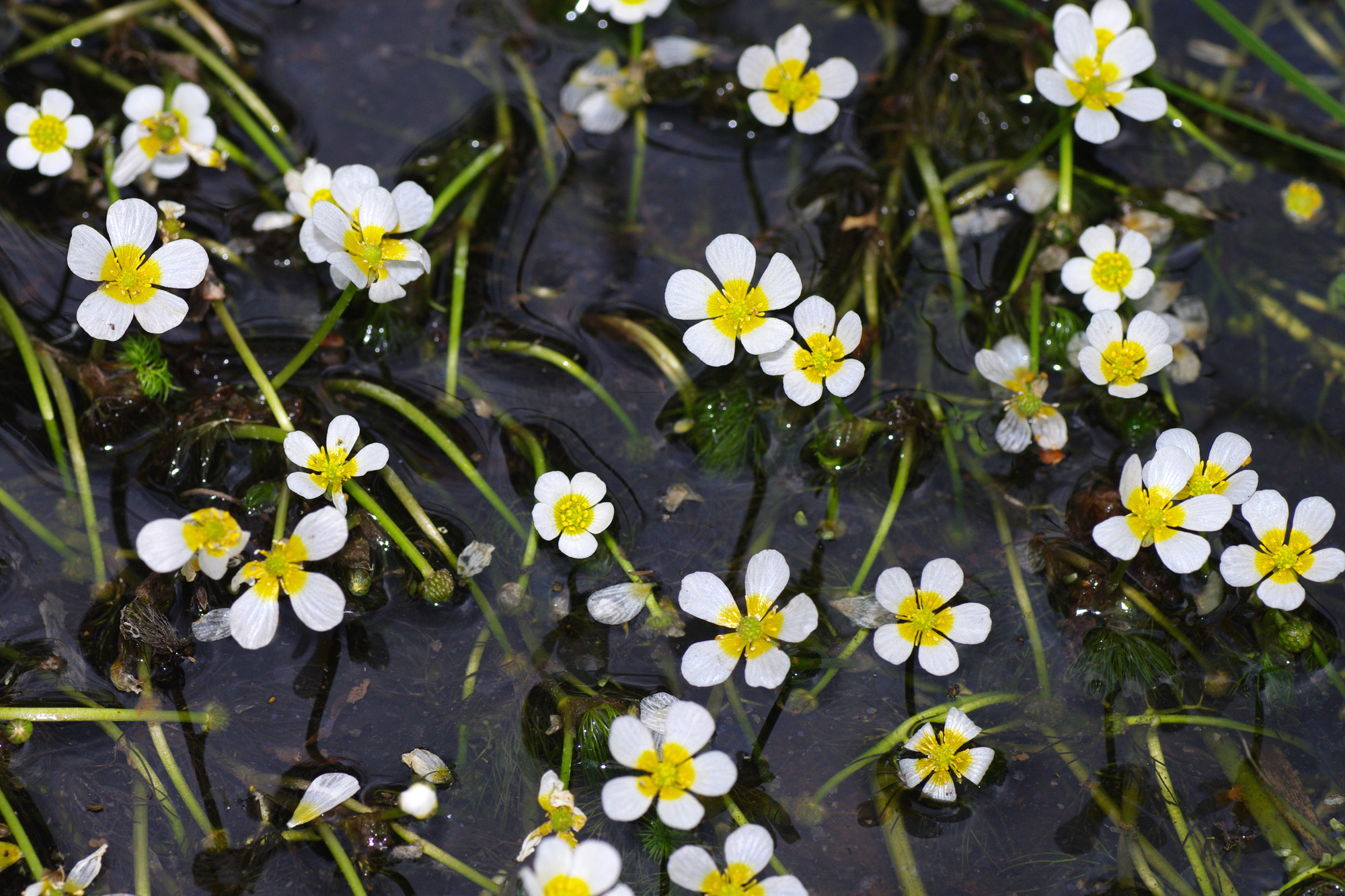 Flowering plants of Ranunculus trichophyllus (Ranunculaceae).